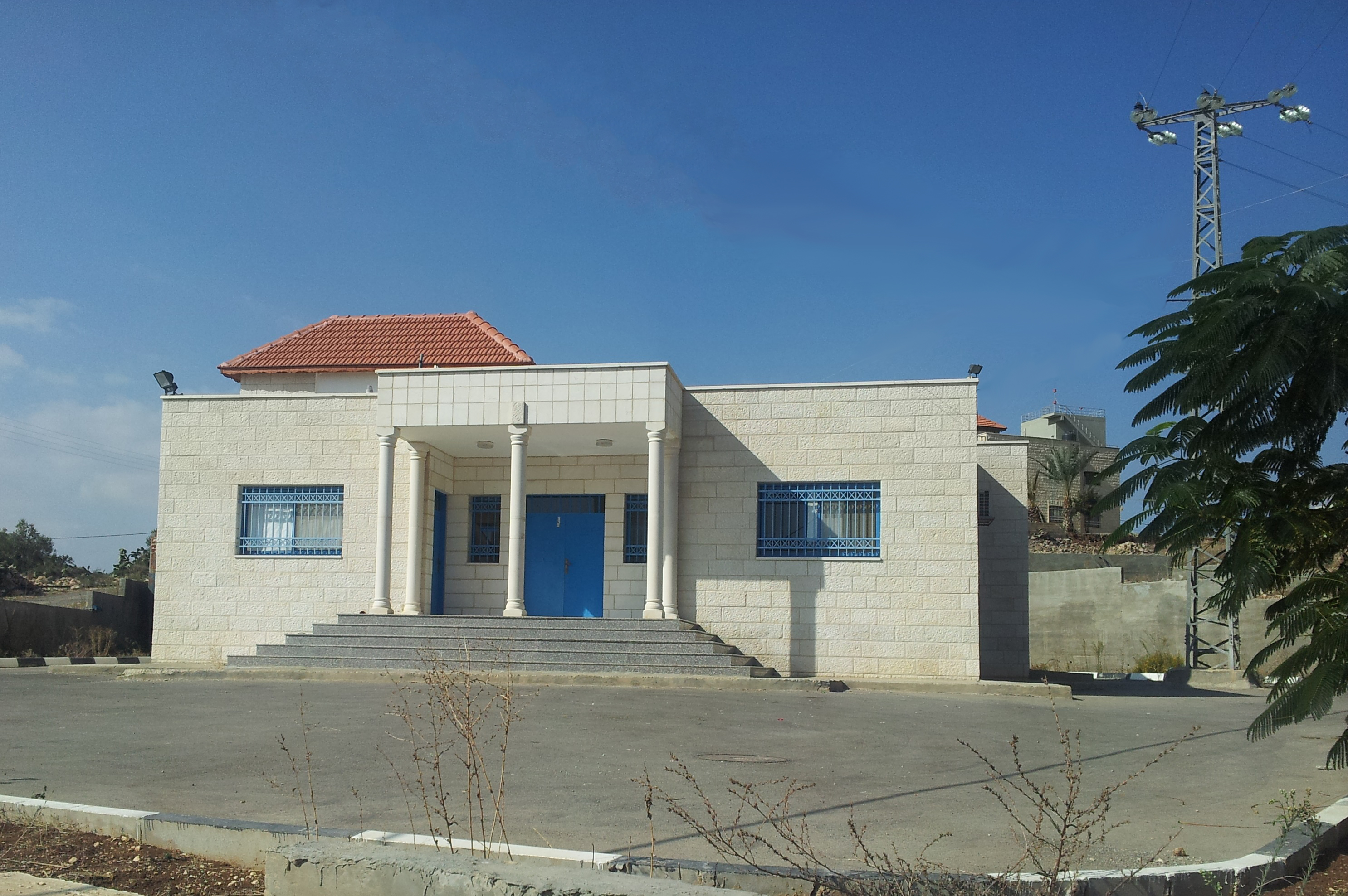 union company